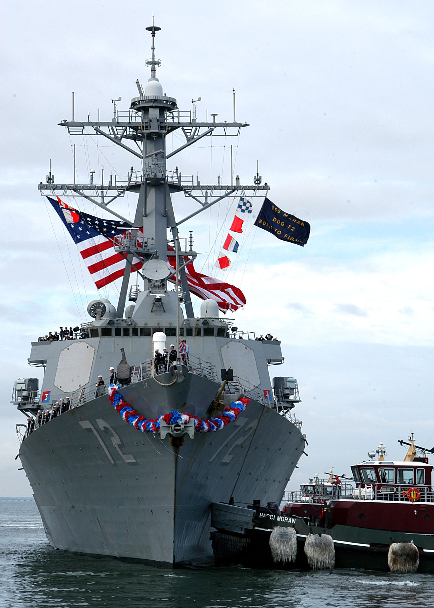 Norfolk, Va. (Nov. 15, 2005) - The guided missile destroyer USS Mahan (DDG 72) returns to Naval Station Norfolk, Va., following a regularly scheduled six-month deployment in support of the Global War on Terrorism. Mahan patrolled the Black Sea and strengthened allied capabilities by providing maritime interception operations training to Bulgaria, Romania and Ukraine forces. U.S. Navy photo by Photographer’s Mate 1st Class Gregory A. Roberts (RELEASED)